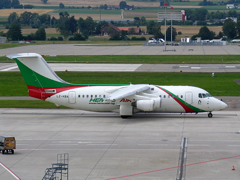 Hemus Air BAe 146-200 LZ-HBA